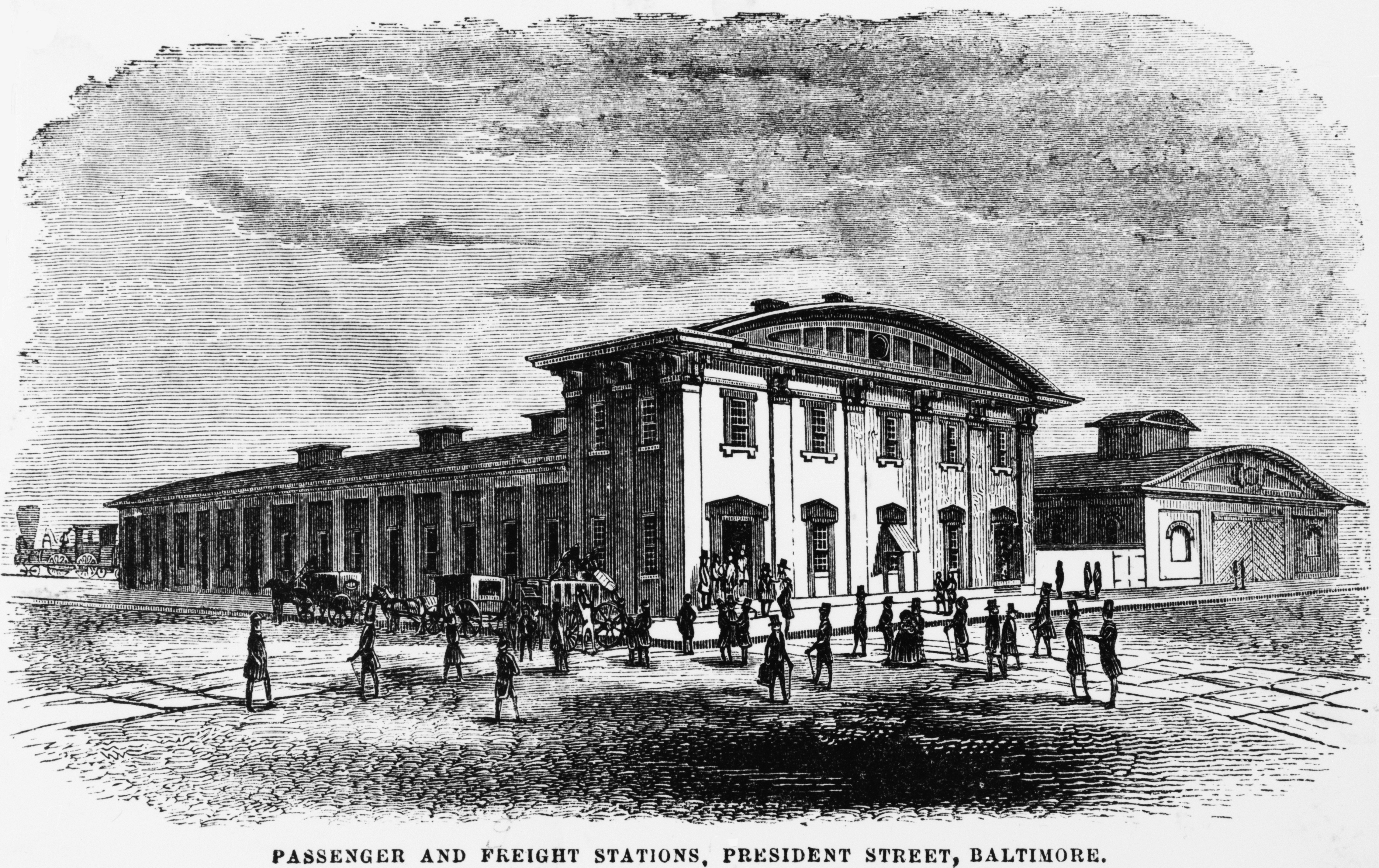 Illustration of President Street Station, Baltimore, Maryland. The station was built by the Philadelphia, Wilmington and Baltimore Railroad in 1850. Photocopy of engraving.